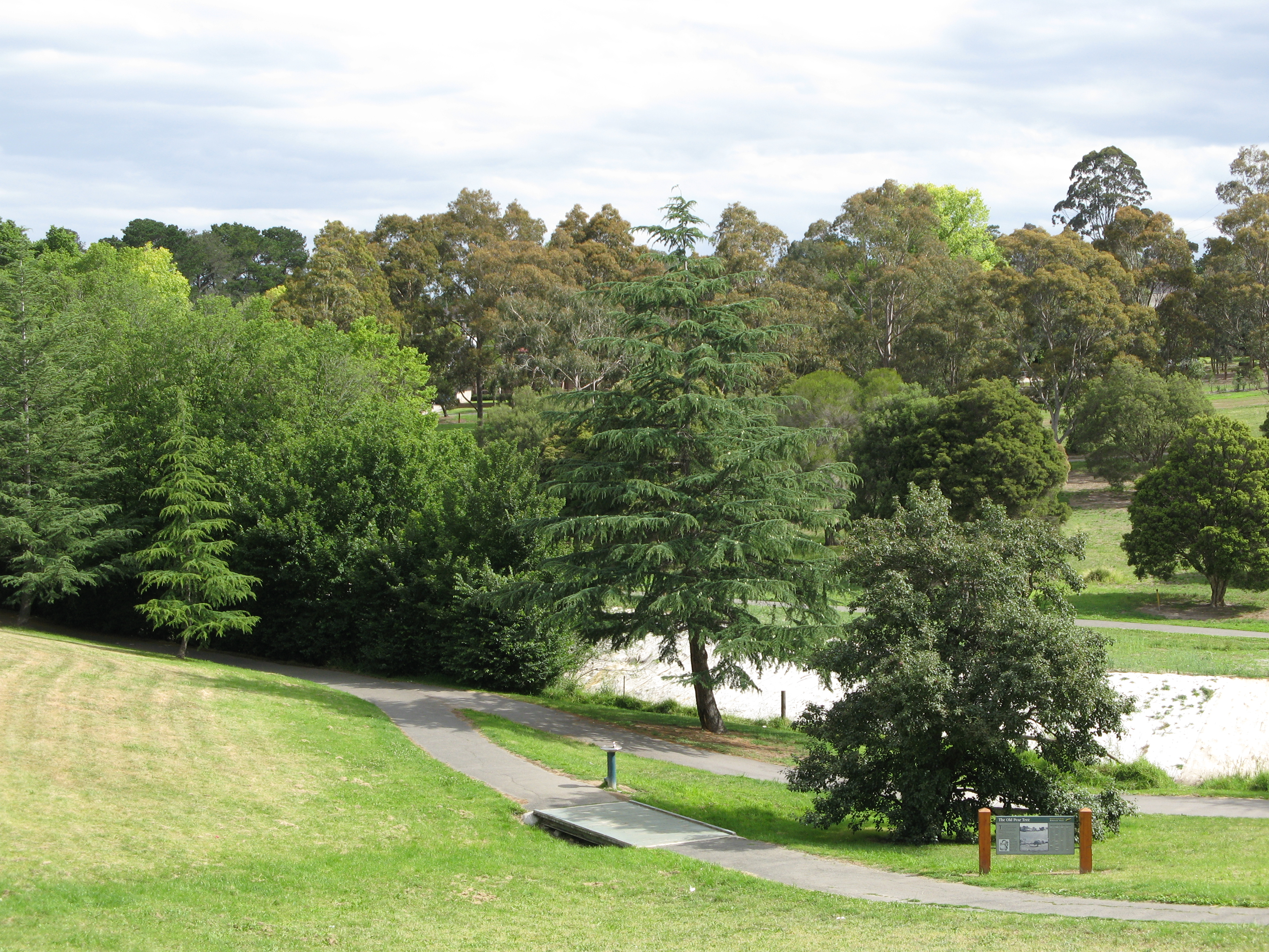 Ruffey Lake Park, looking south-west towards Ruffey Creek. Photo taken by Nick carson in late 2008.